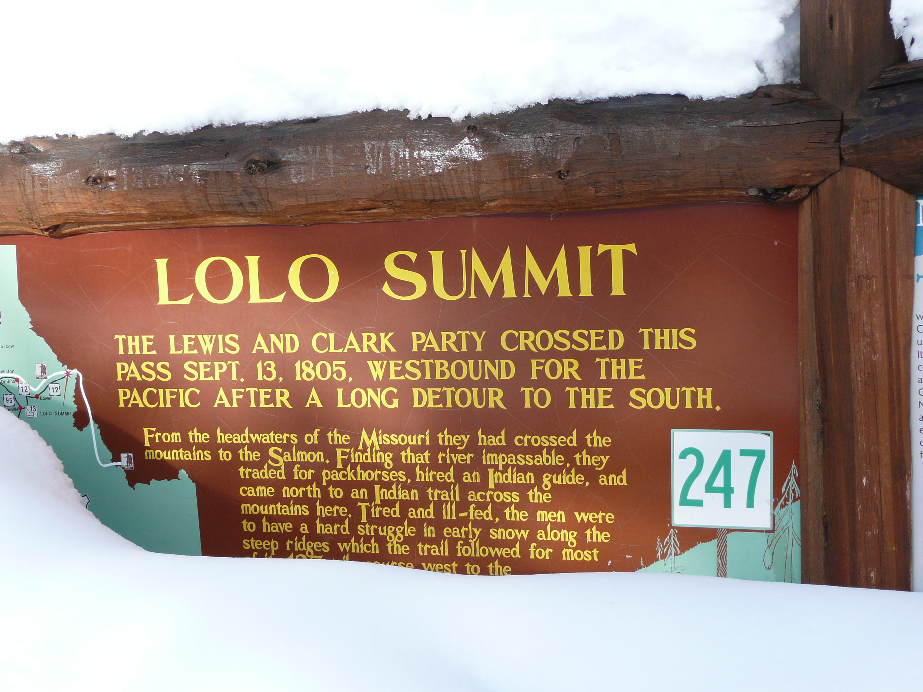 Informational sign at Lolo Summit. Montana, USA.